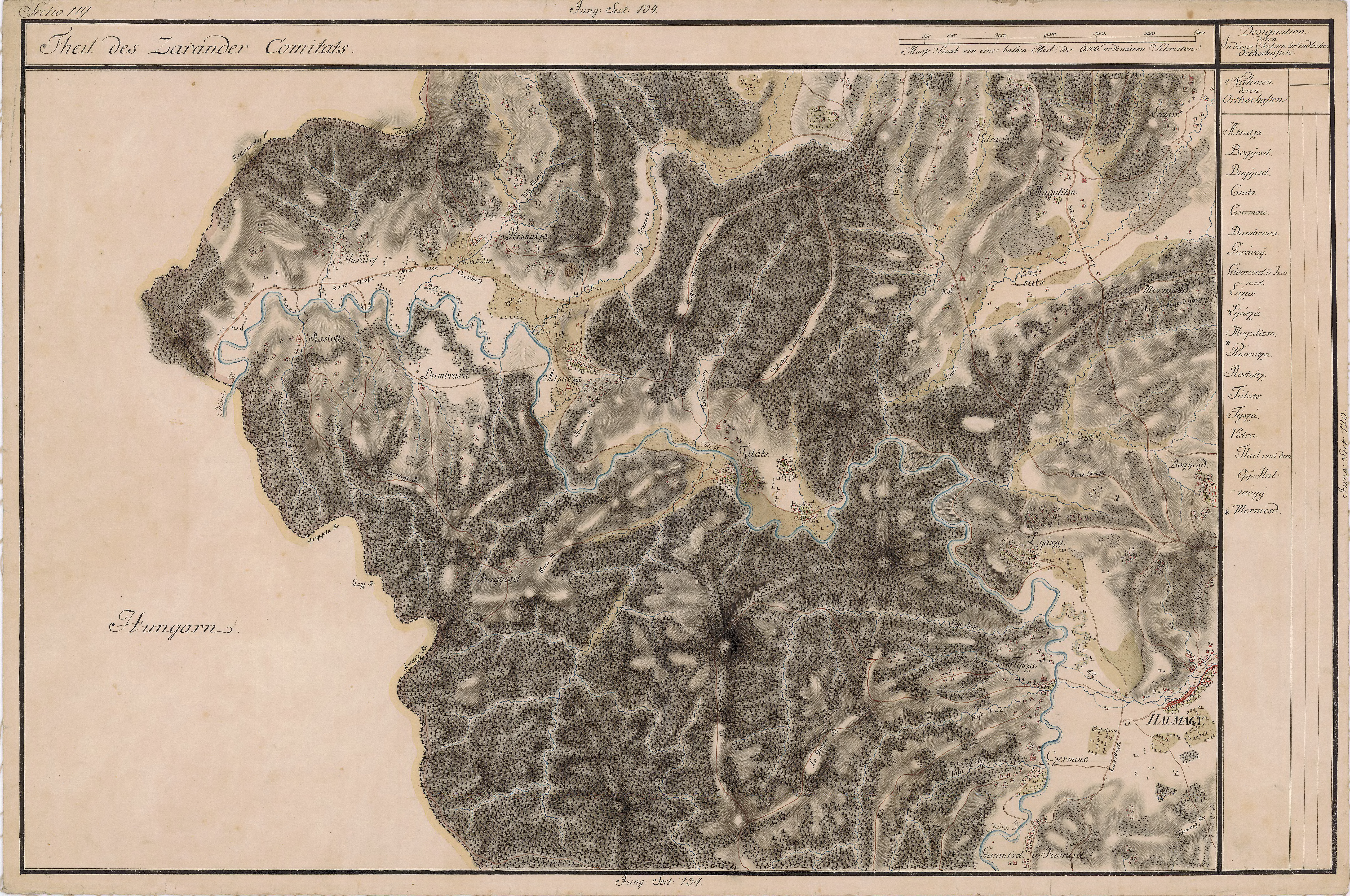 Grand Duchy of Transylvania, 1769-1773. Josephinische Landaufnahme pg.119